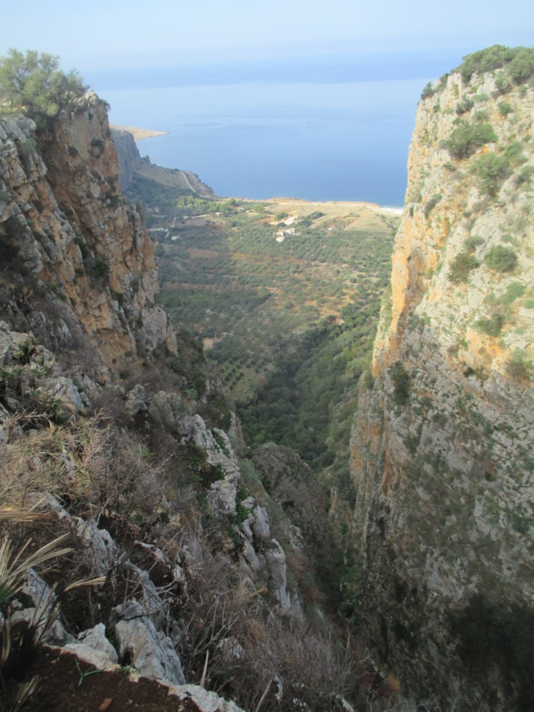 it is a photo of a natural canyon in Sicily